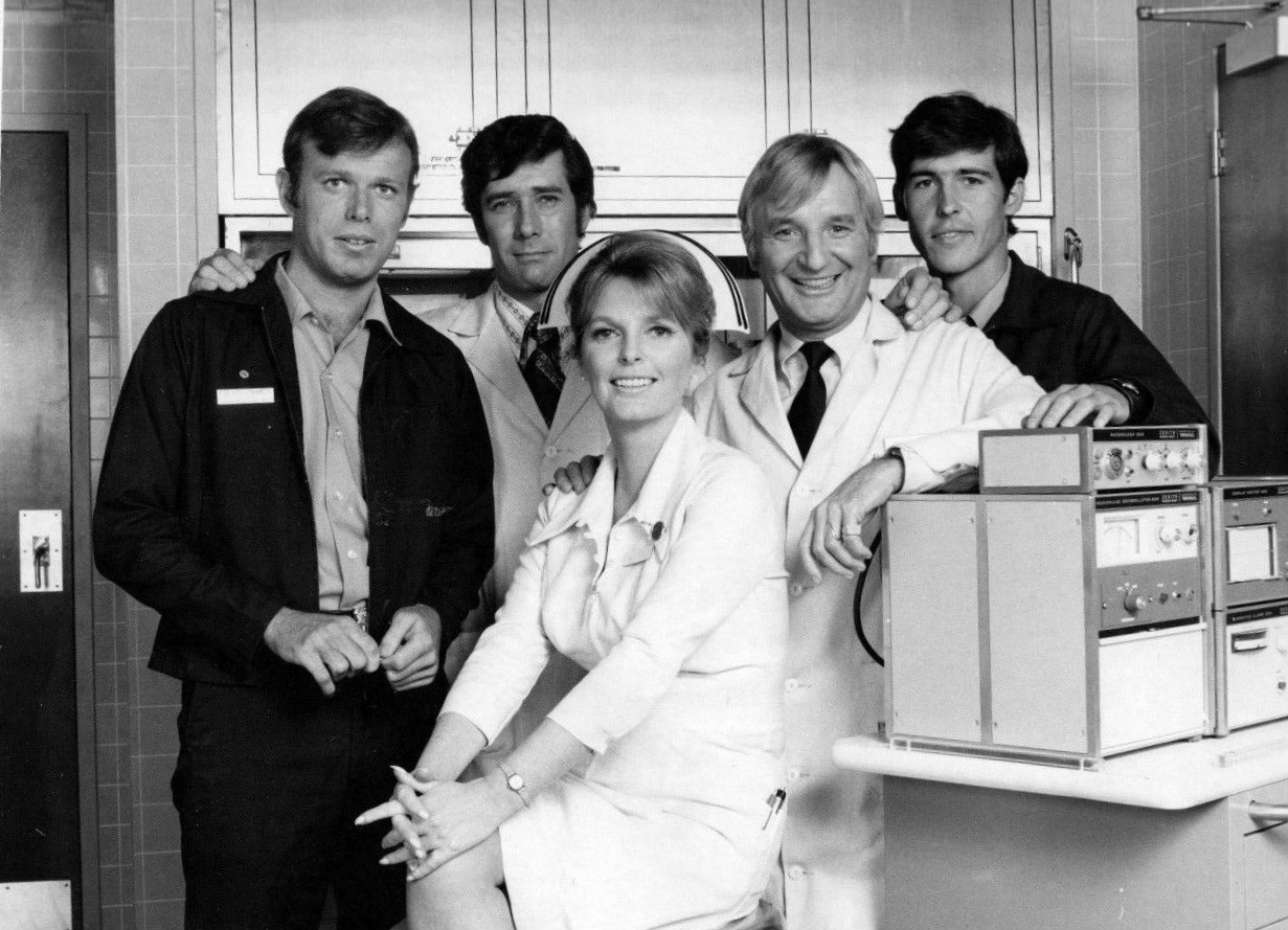 Photo of the cast of the television program Emergency!. From left: Kevin Tighe, Robert Fuller, Julie London, Bobby Troup and Randolph Mantooth.